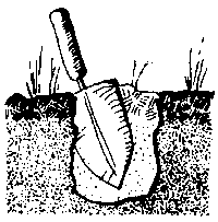 A cathole to dispose of human waste while hiking.